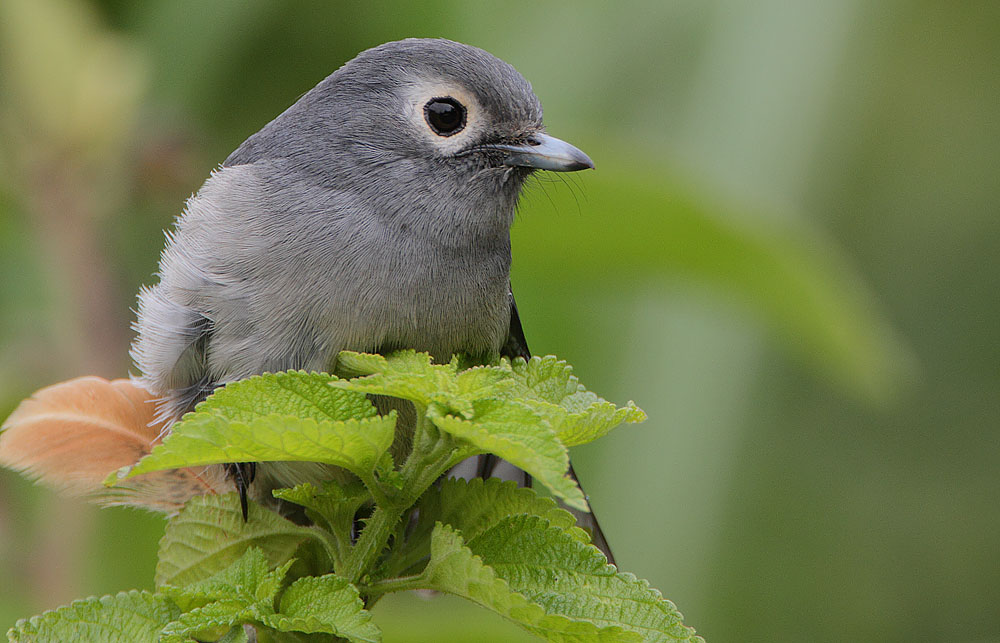 A drab but attractive flycatcher of woodland/forest edge found above 1000m. Avoids dry savanna woodland.